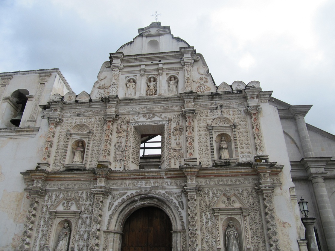 Cathedral of Quetzaltenango